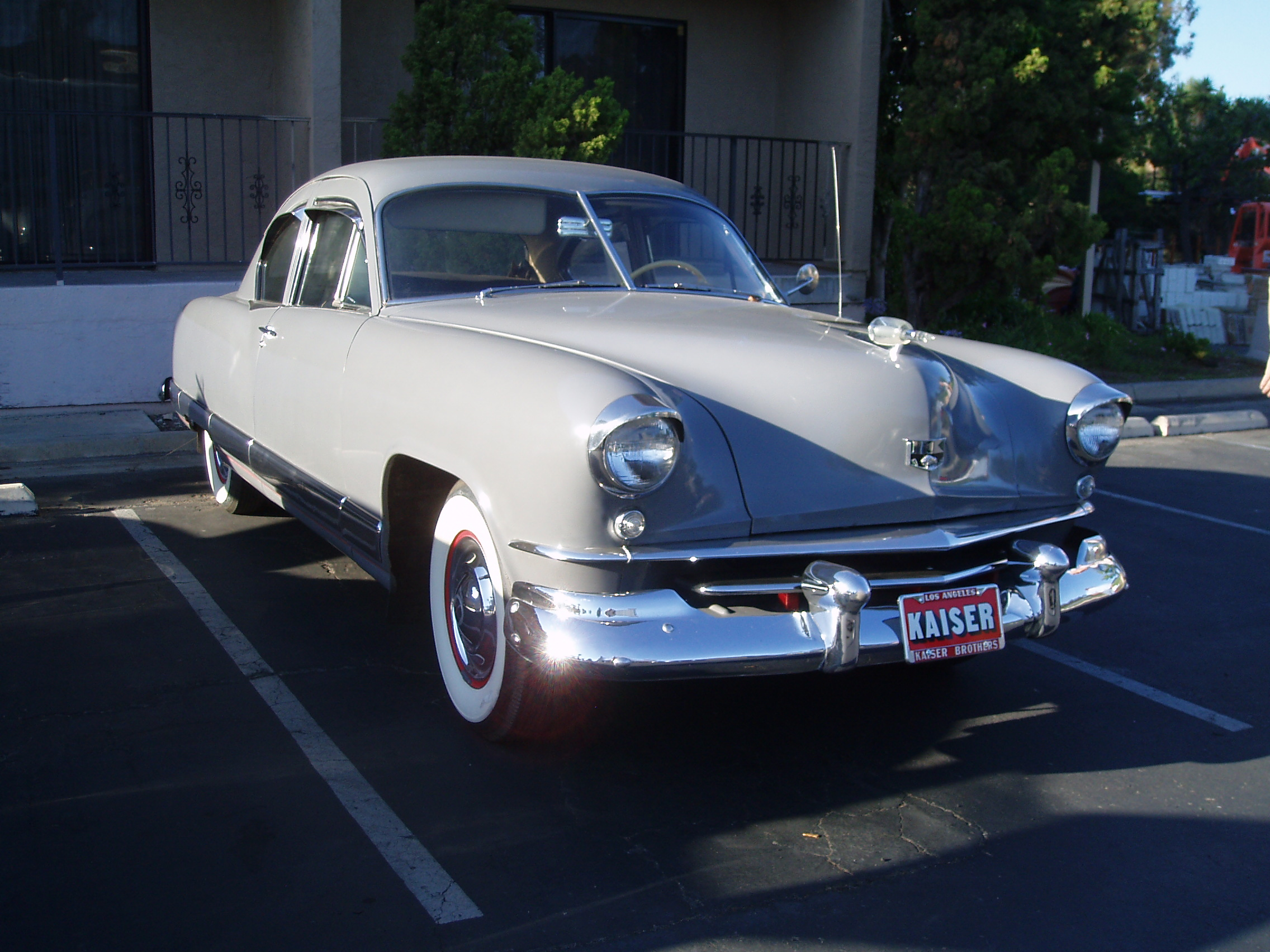 At the Kaiser-Frazer Owners Club National Meet, Rancho Bernardo CA, June 2011.